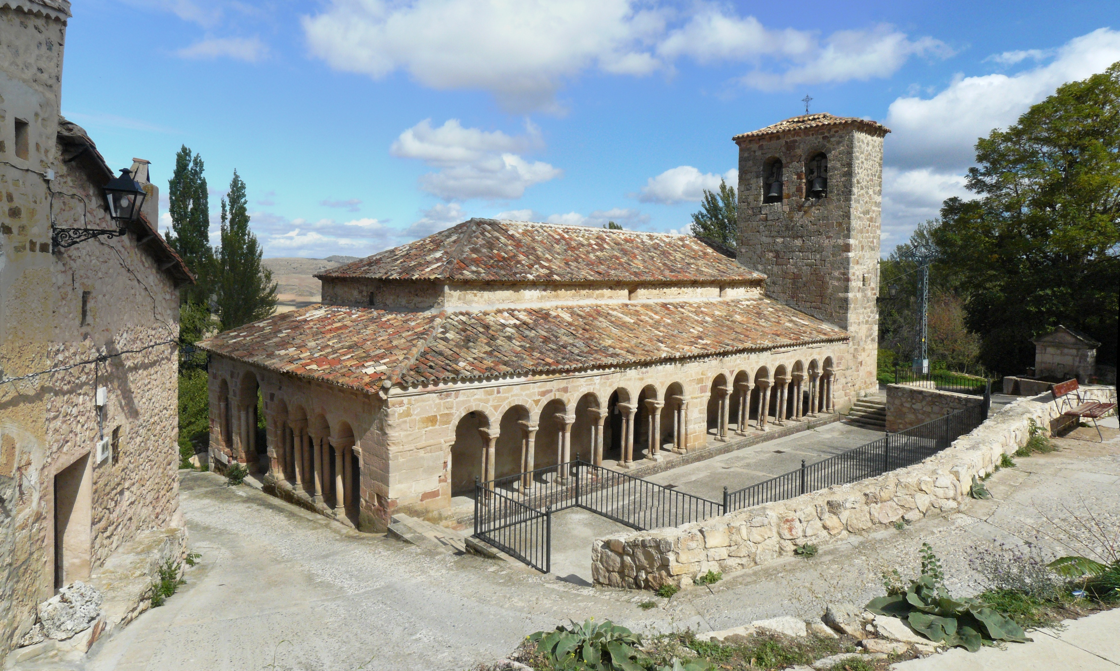 Romanesque church of San Salvador, Carabias, Guadalajara (Spain).